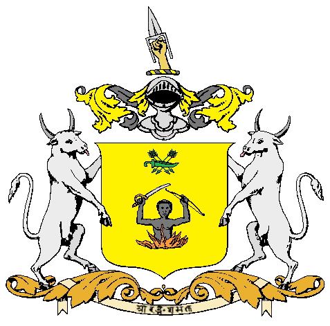 Bundi State Coat of Arms This work is in the public domain in India because its term of copyright has expired. The Indian Copyright Act applies in India, to works first published in India. According to The Indian Copyright Act, 1957 (Chapter V Section 25), Anonymous works, photographs, cinematographic works, sound recordings, government works, and works of corporate authorship or of international organizations enter the public domain 60 years after the date on which they were first published, counted from the beginning of the following calendar year (ie. as of 2016, works published prior to 1 January 1956 are considered public domain). Posthumous works (other than those above) enter the public domain after 60 years from publication date. Any other kind of work enters the public domain 60 years after the author's death. Text of laws, judicial opinions, and other government reports are free from copyright. Photographs created before 1958 are in the public domain 50 years after creation, as per the Copyright Act 1911. This file may not be in the public domain outside India. The creator and year of publication are essential information and must be provided. See Wikipedia:Public domain and Wikipedia:Copyrights for more details. This image shows a flag, a coat of arms, a seal or some other official insignia. The use of such symbols is restricted in many countries. These restrictions are independent of the copyright status.